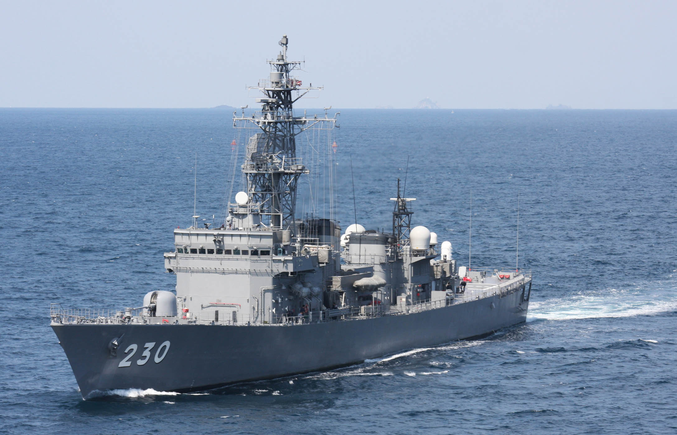 JS ”Jintsū” (DE-230)